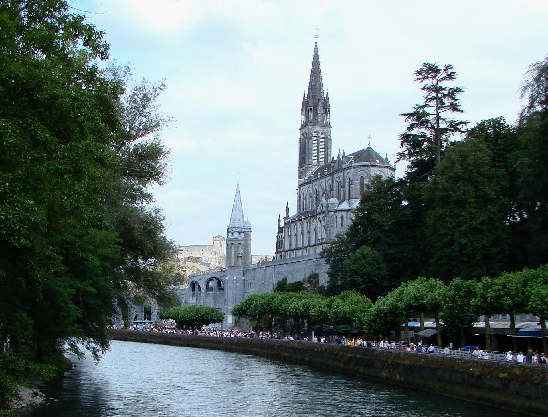 Lourdes with Sanctuaries on the right, Castle in background and Gave de Pau in the middle